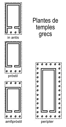 Greek temple layout